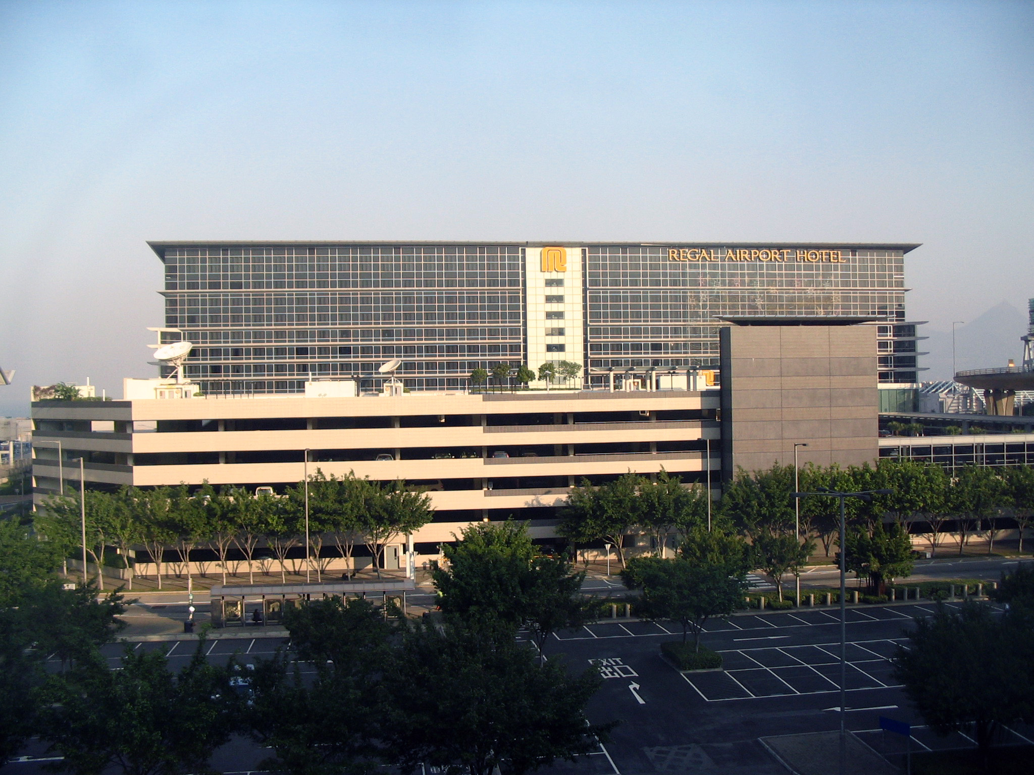 Regal Airport Hotel, Hong Kong